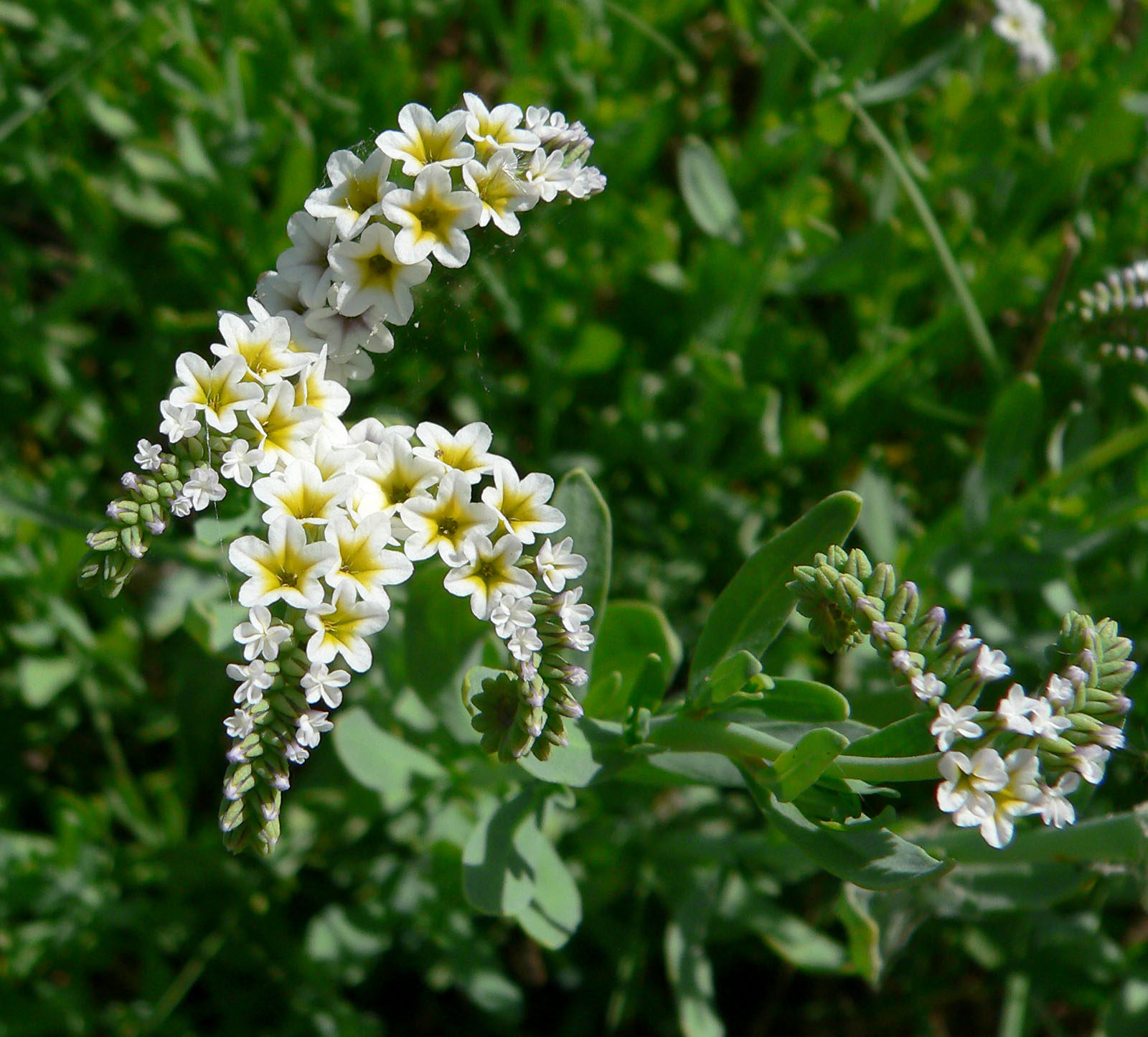 Heliotropium curassavicum on the banks of the Muddy River near Interstate 15, Moapa Valley, southern Nevada